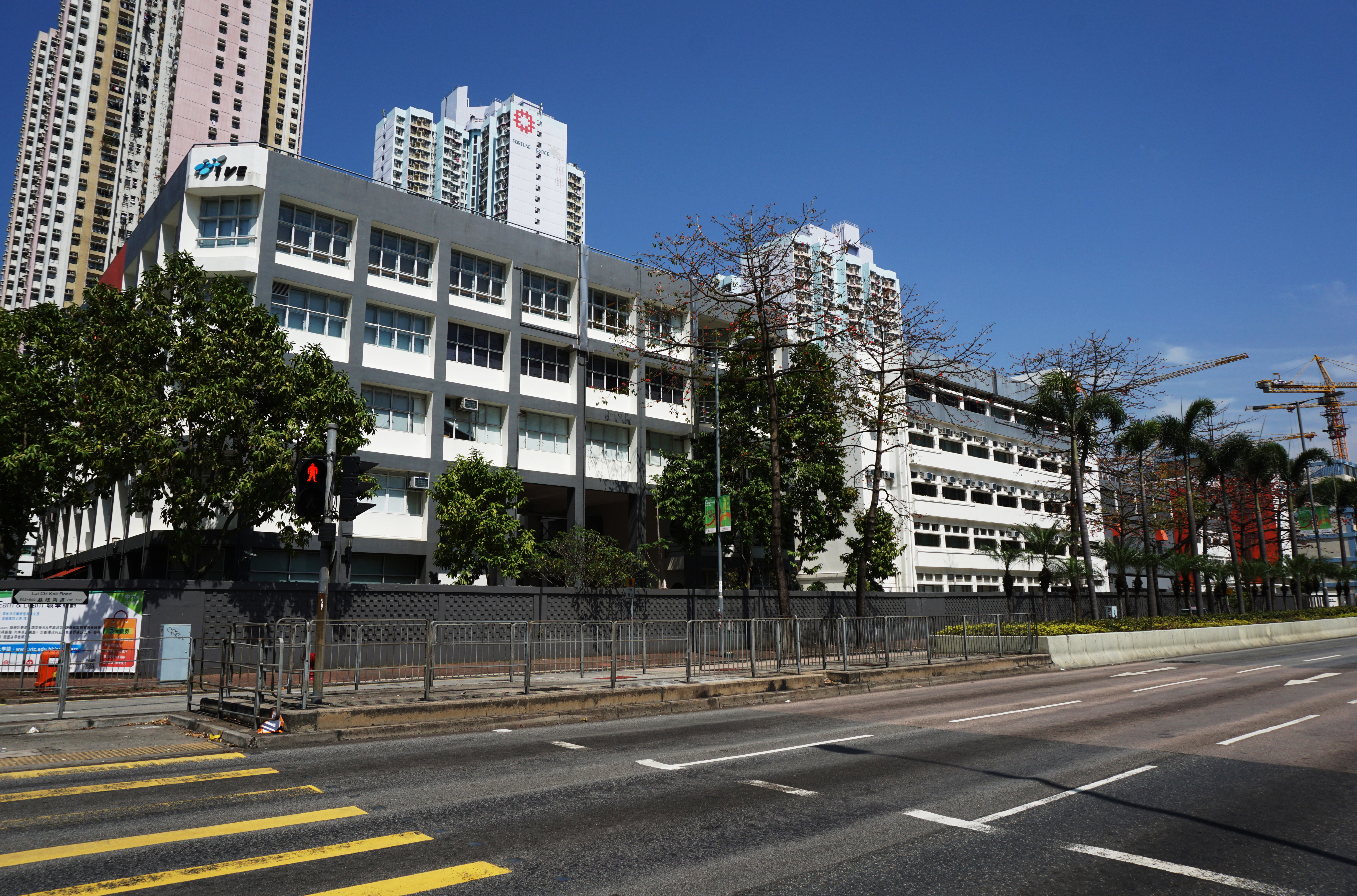 Institute of Vocational Education (Haking Wong) in Cheung Sha Wan, Hong Kong.